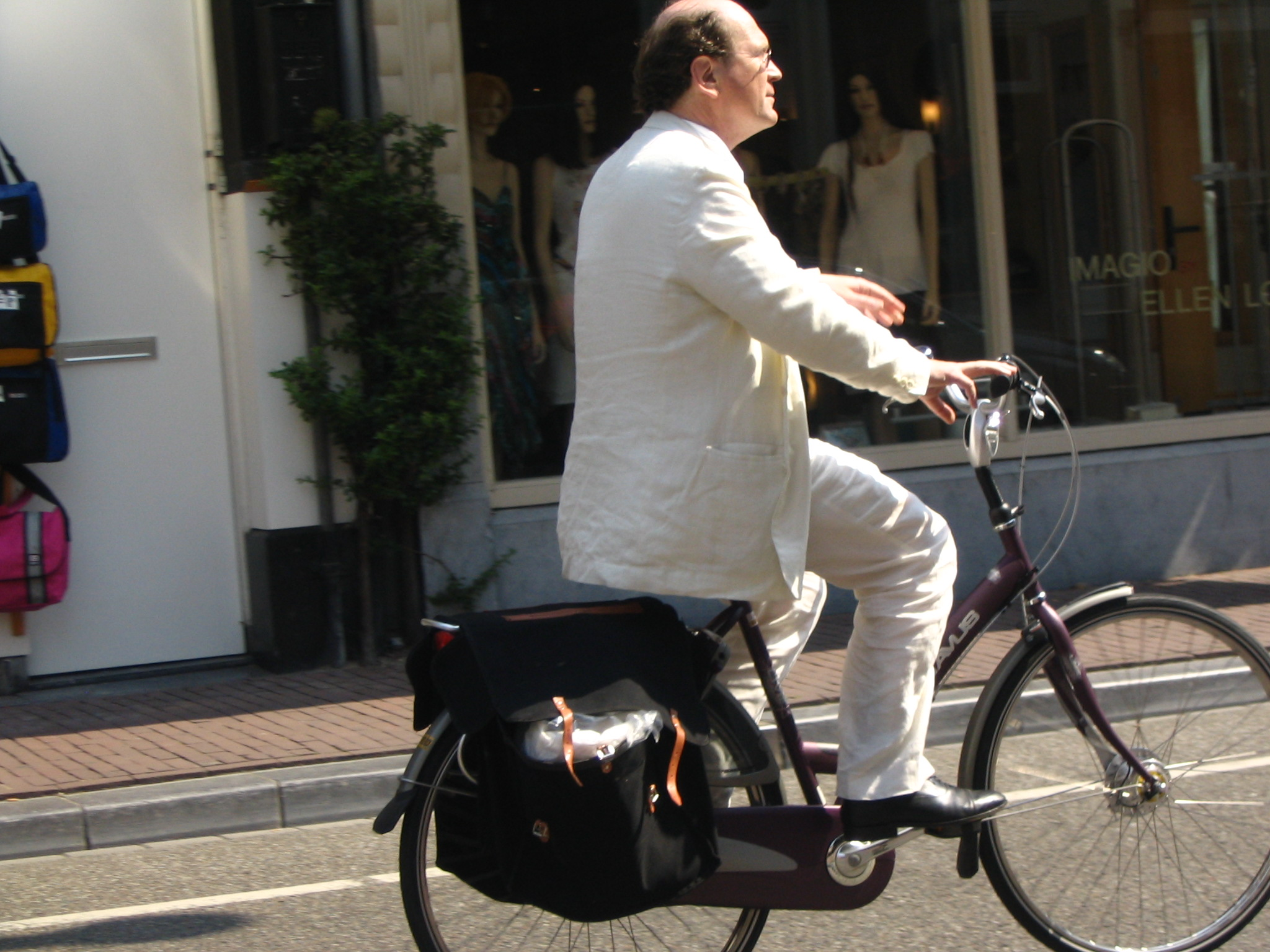 Antipodes cyclist